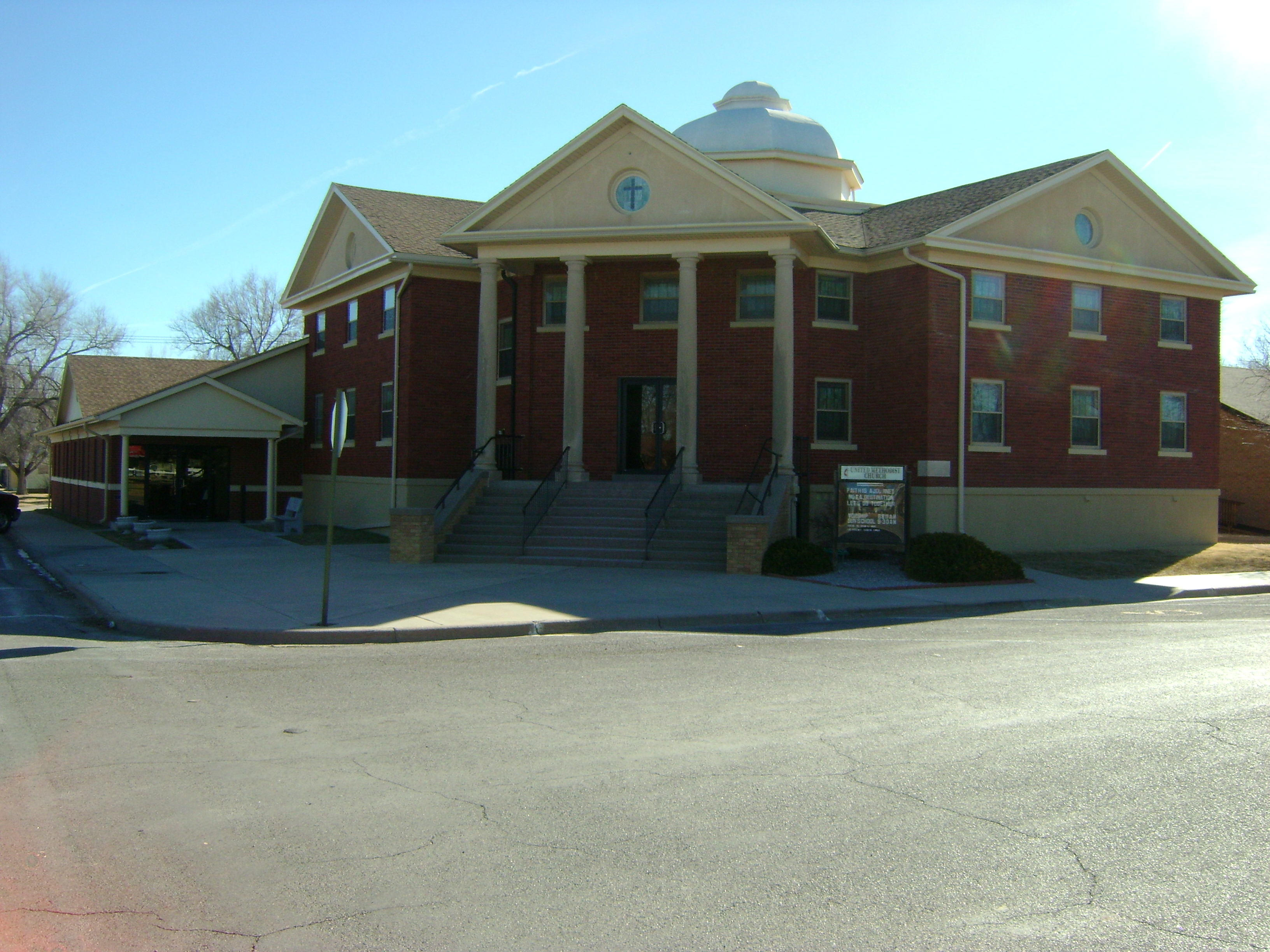 Photograph of the United Methodist Church in Jetmore, KS. I took this photograph myself, as part of a family history project, and decided to upload it to Commons, to be used on the article about the town.